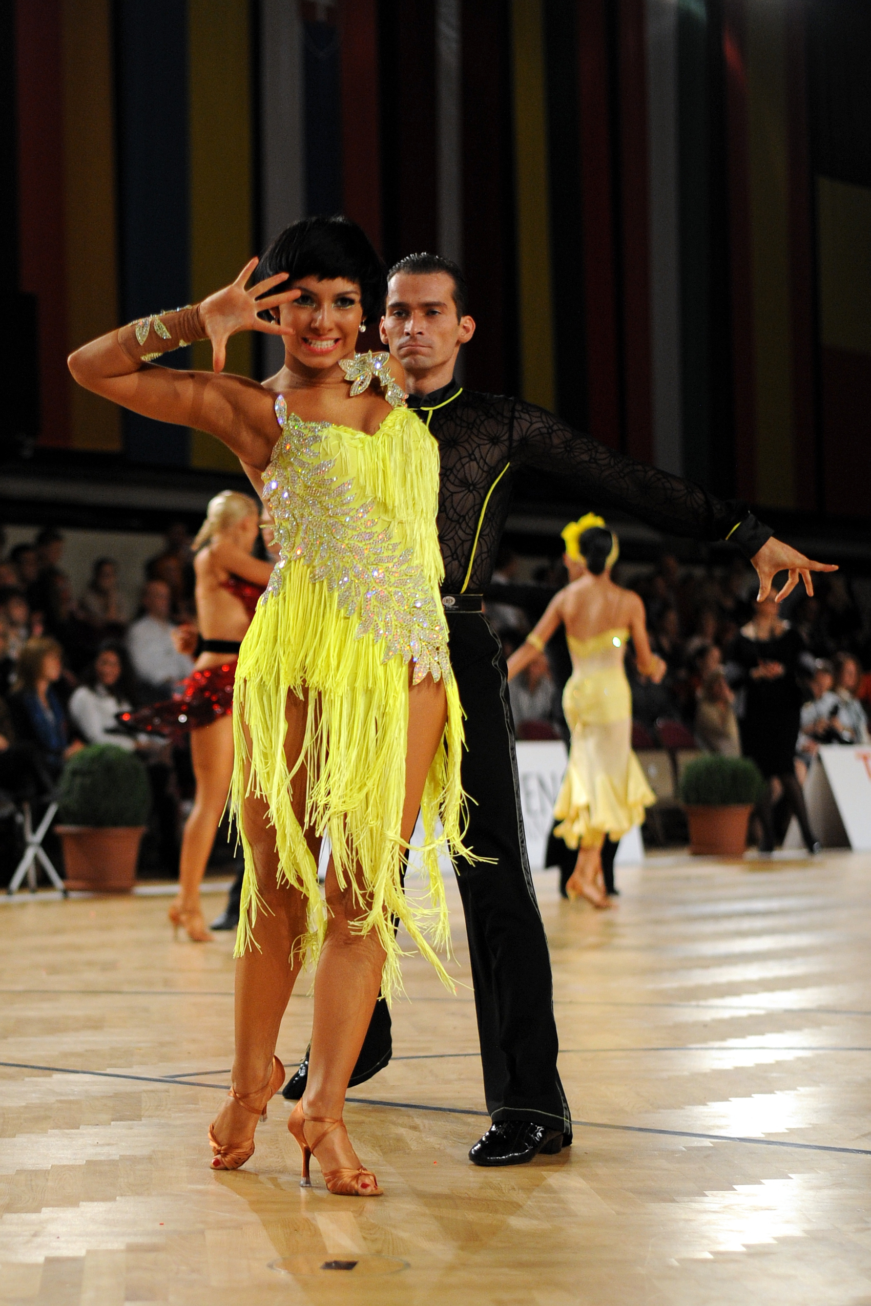 Austrian Open Championships Vienna, 2012 WDSF World Dancesport Championships Latin 16.-18. November 2012 The making of this work was supported by Wikimedia Austria. For other files made with the support of Wikimedia Austria, please see the category Supported by Wikimedia Österreich. Personality rights warning Although this work is freely licensed or in the public domain, the person(s) shown may have rights that legally restrict certain re-uses unless those depicted consent to such uses. In these cases, a model release or other evidence of consent could protect you from infringement claims.